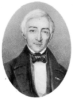 Scan of a picture of German scientist Ferdinand Reich (who died in 1882)